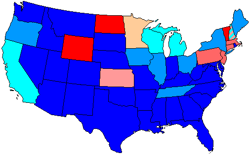 Summary of party control of U.S. house seats in the 73rd United States Congress following election. Stripes indicate a tie between two or more parties. Legend: 80.1-100% Democratic seat majority 60.1-80% Democratic seat majority 60% or less Democratic seat plurality 60% or less Republican seat plurality 60.1-80% Republican seat majority 80.1-100% Republican seat majority 60% or less Farmer-Labor seat plurality 60.1-80% Progressive seat plurality